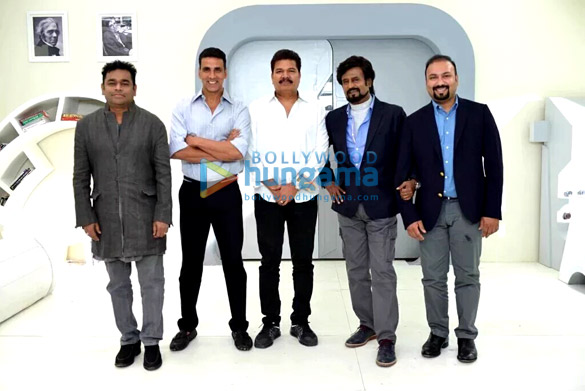 2.0 (film): Rajinikanth, Akshay Kumar, S. Shankar, Allirajah Subaskaran and A. R. Rahman